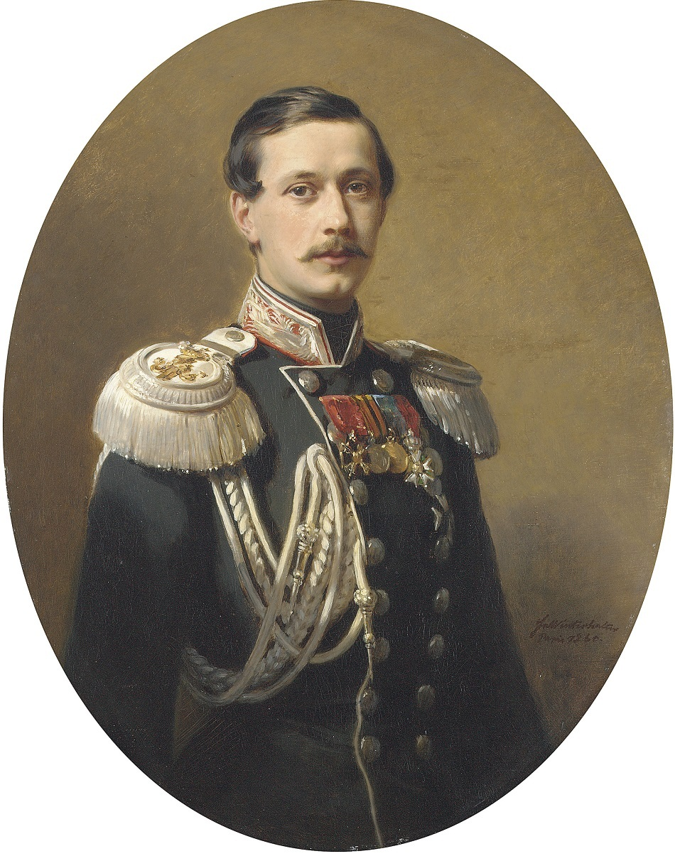 Count Paul Andreievich Shouvaloff (1830-1908)